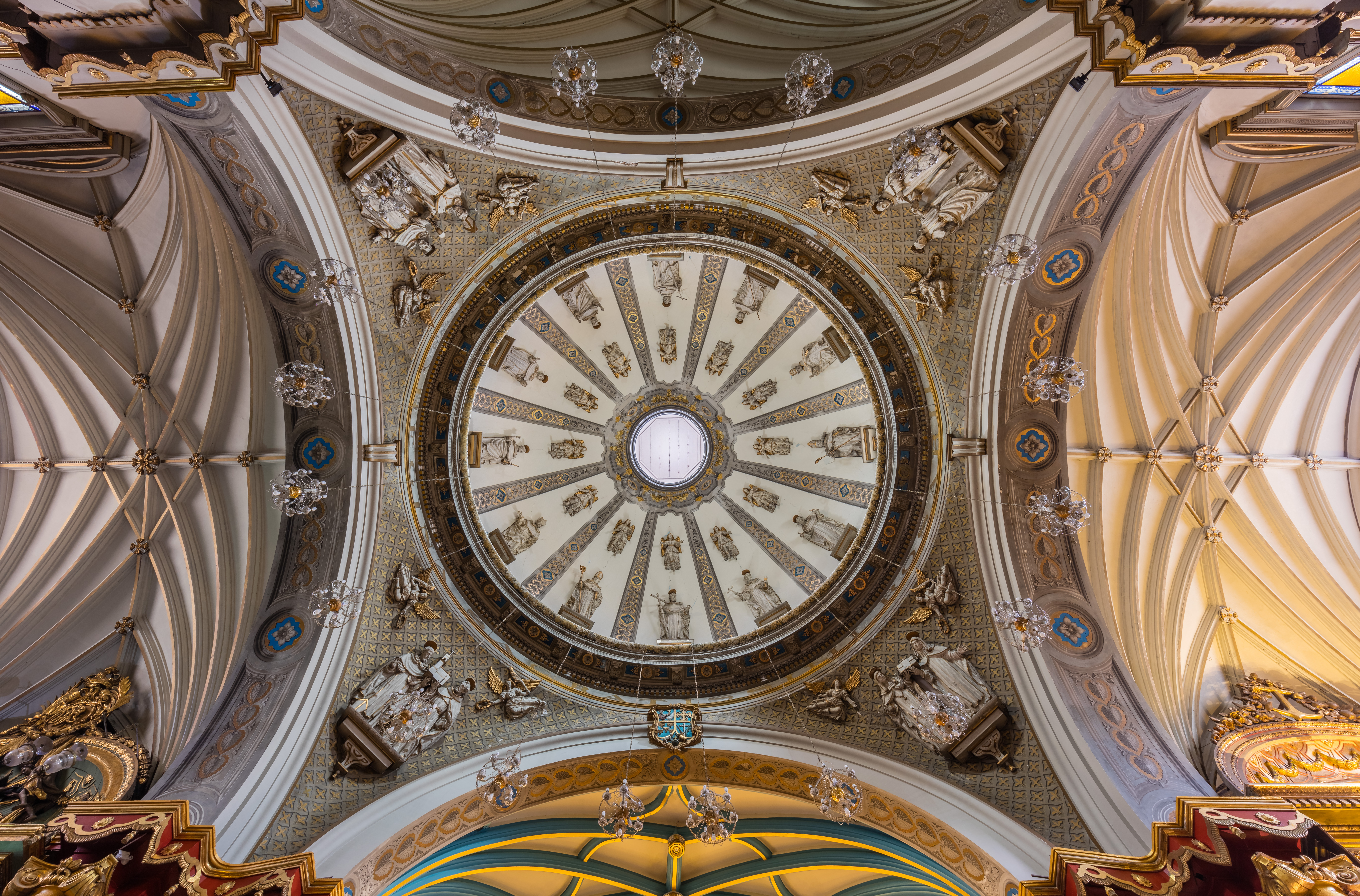 Interior view of the dome of the church of Santo Domingo, Historic Centre of Lima, capital of Peru. The site, built between 1535 and 1578, is also a basilic and convent. It was destructed by the earthquake of 1678 and rebuilt shortly afterwards with the current appearance. The church merges different architectural styles, neoclassicism, rococo and renaissance.